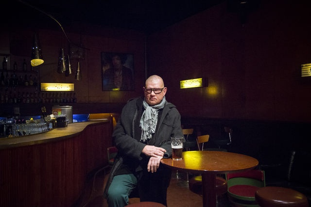 Photograph of the Finnish journalist Kimmo Oksanen (1960–).